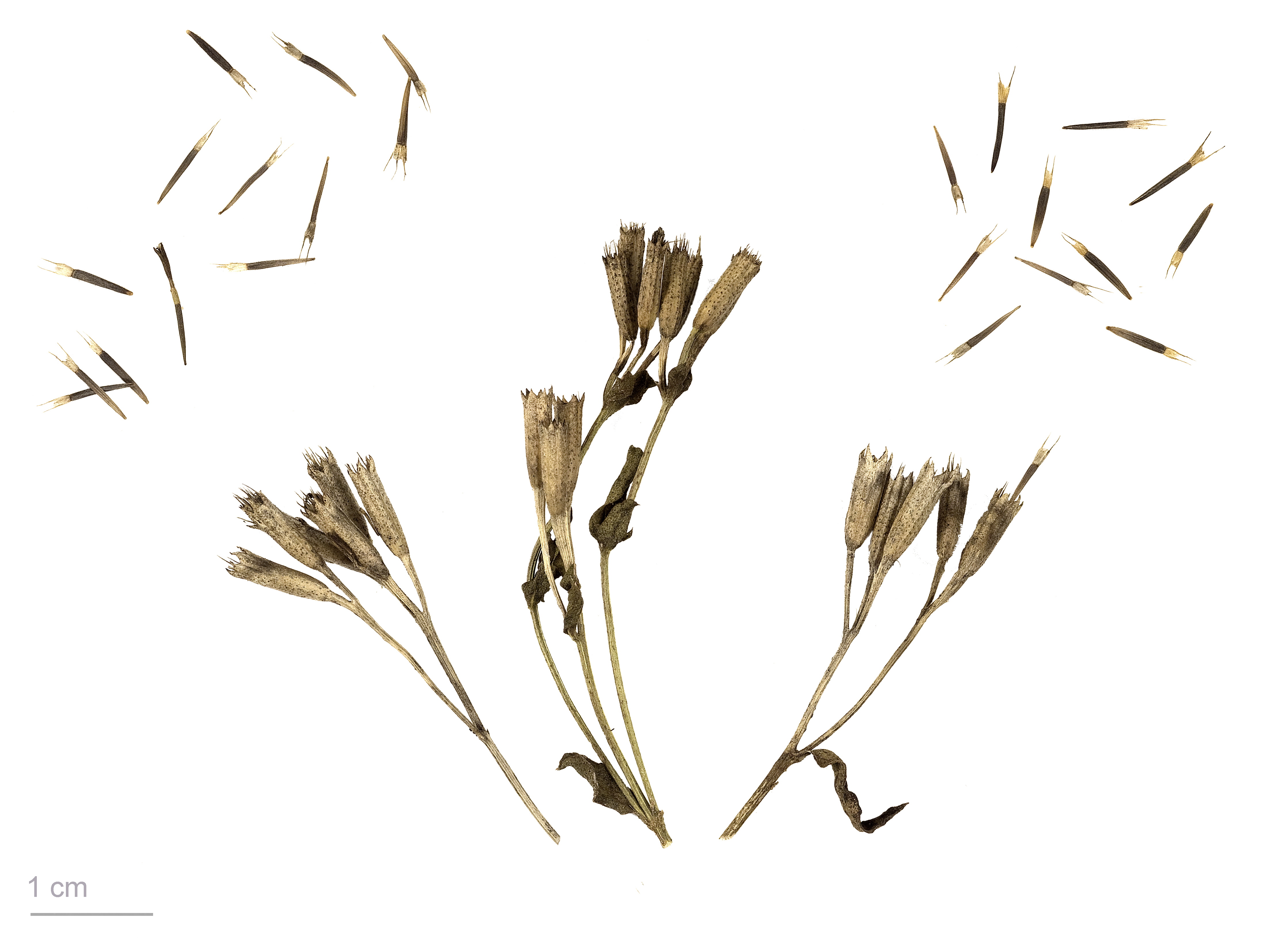 Mexican tarragon, fruits and seeds